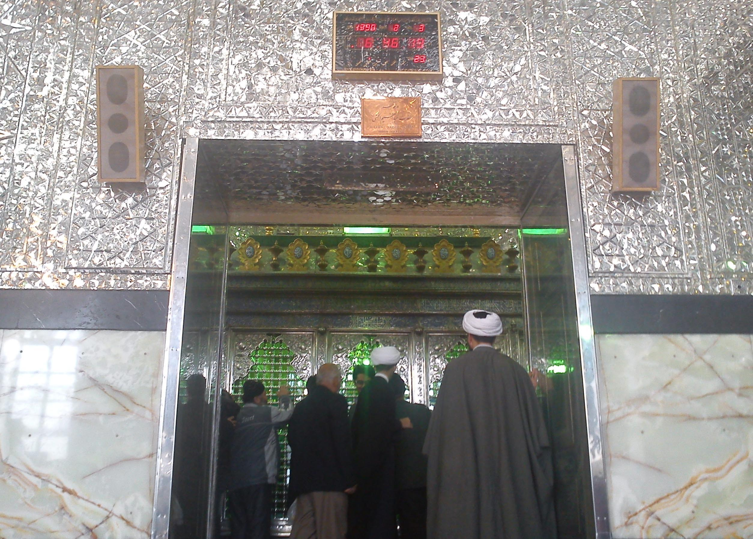 Shah-Abdol-Azim shrine